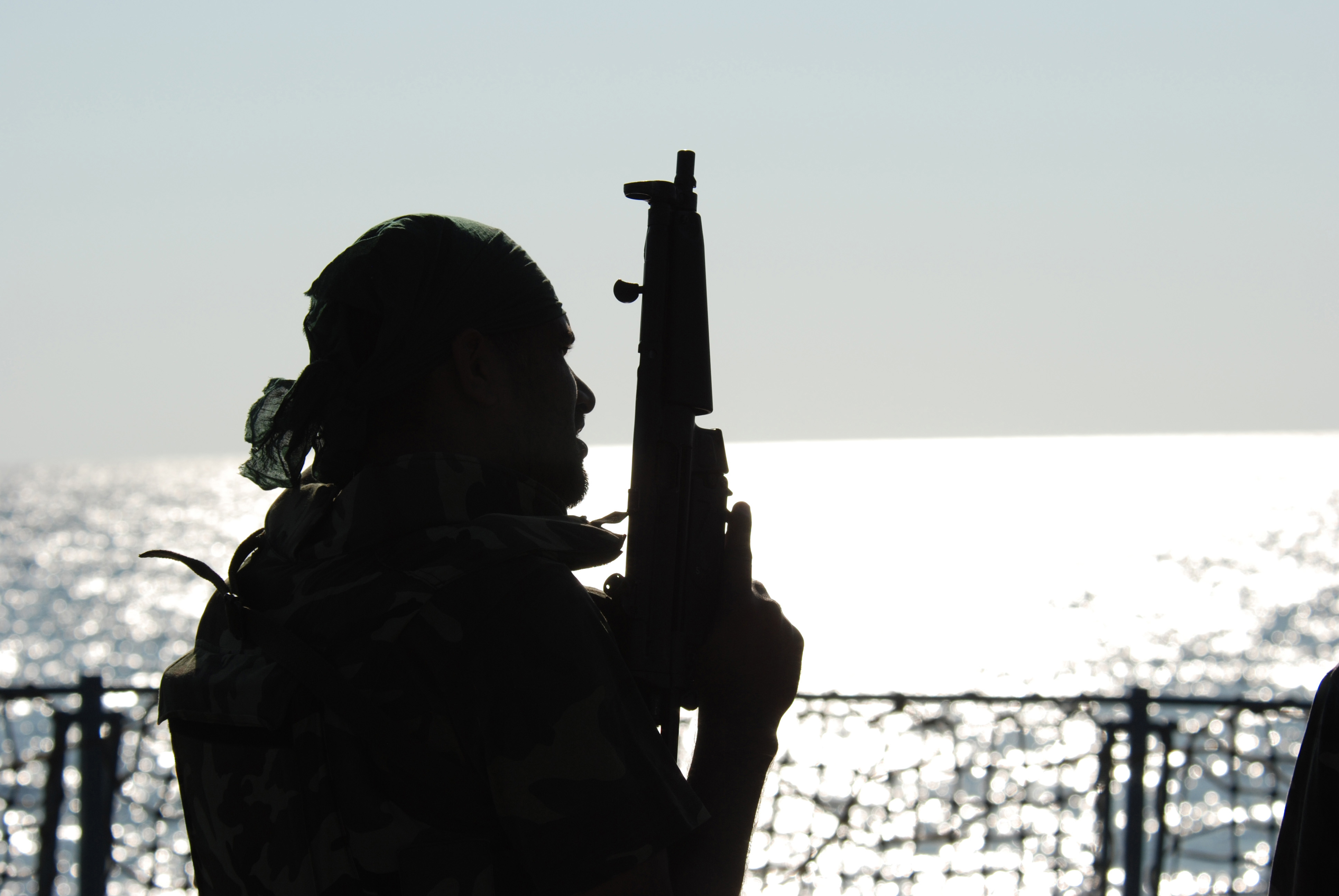 A member of Pakistan Navy Special Service Group is silhouetted by the setting sun aboard Pakistan Navy Ship PNS Babur (D 182) while under way in the Arabian Sea Nov. 25, 2007. Babur is deployed to the Central Command area of responsibility as part of Combined Task Force 150. CTF 150 is responsible for maritime security operations in the Gulf of Oman, Gulf of Aden, Red Sea, North Arabian Sea and parts of the Indian Ocean.